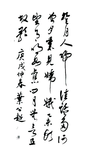 Yeh Kung Ch'ao's calligraphic work